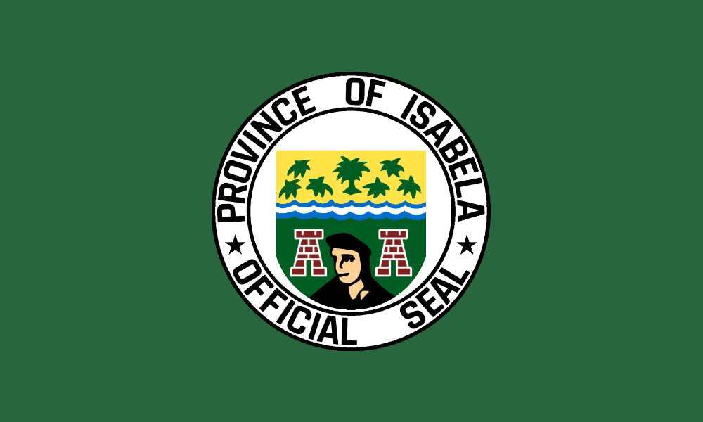 Provincial flag of Isabela